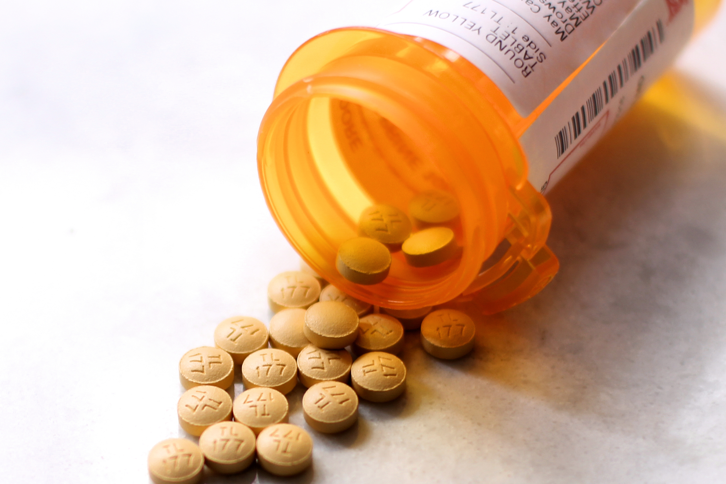 10 milligram tablets of the muscle relaxant cyclobenzaprine. The pills are stamped TL177 on one side.